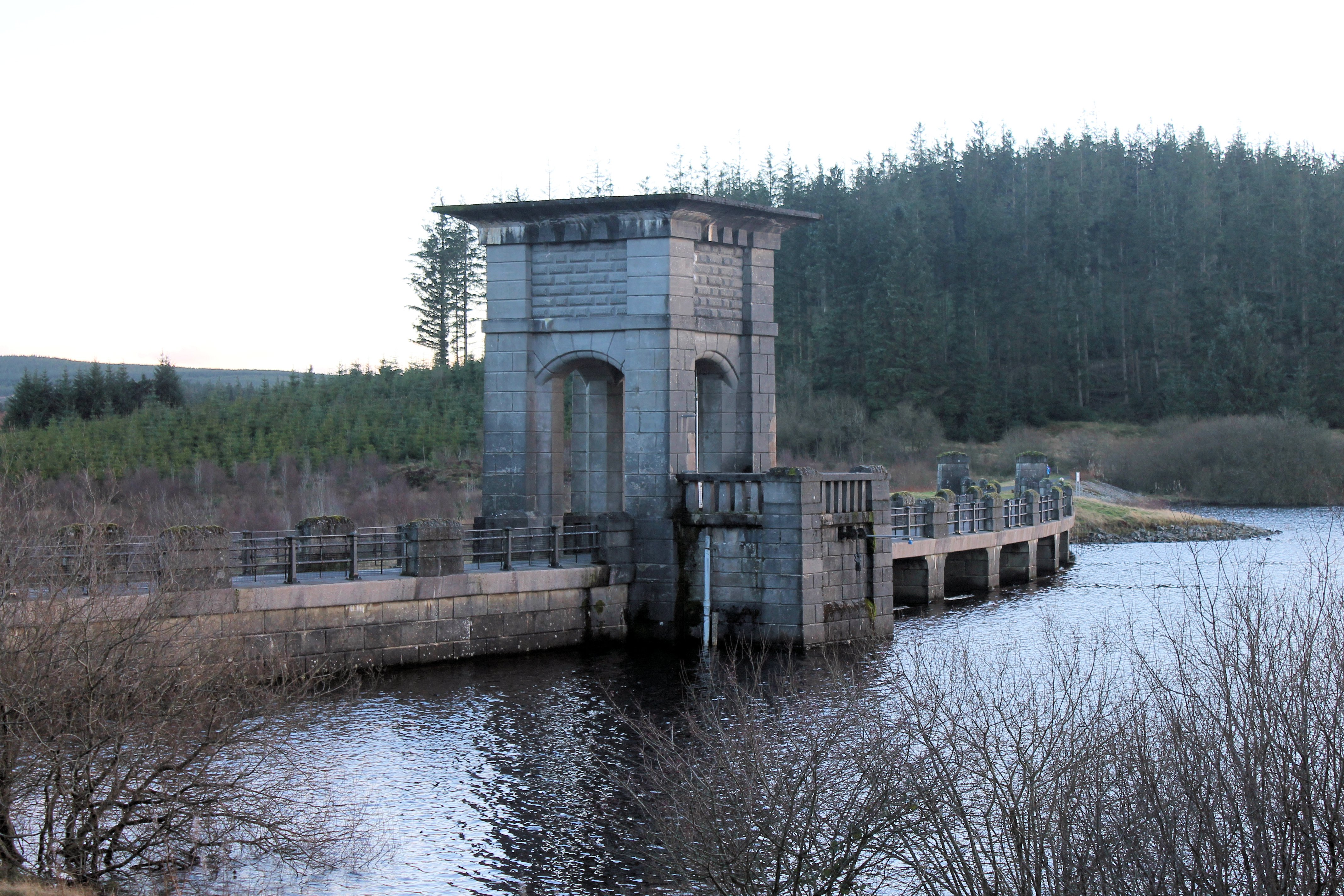 Llyn Alwen Reservoir, Conwy Borough County, Wales.